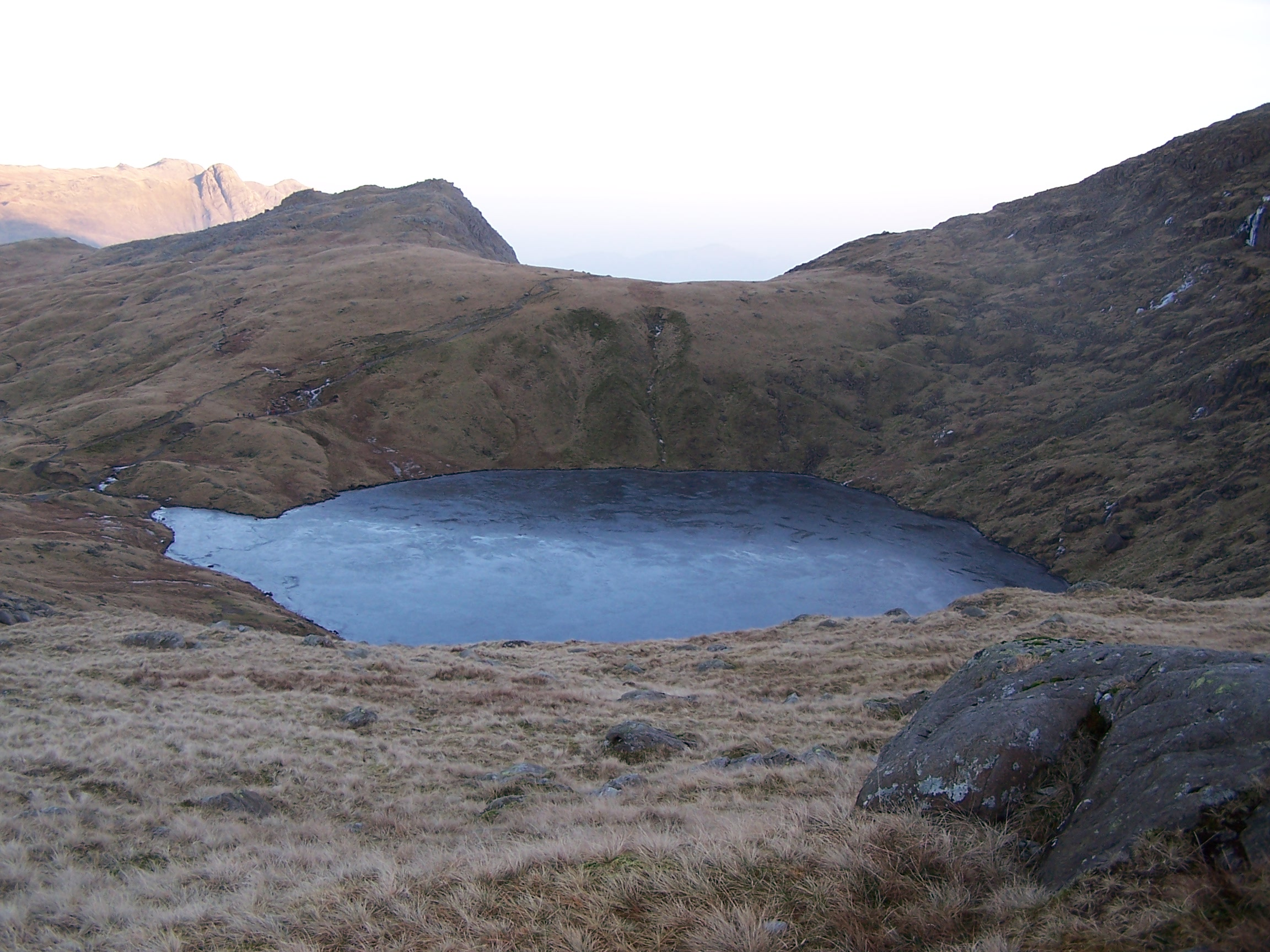 Angle Tarn below Bow Fell, frozen solid enough to walk on. Facing approximately SE towards the top of Rossett Gill and Langdale.